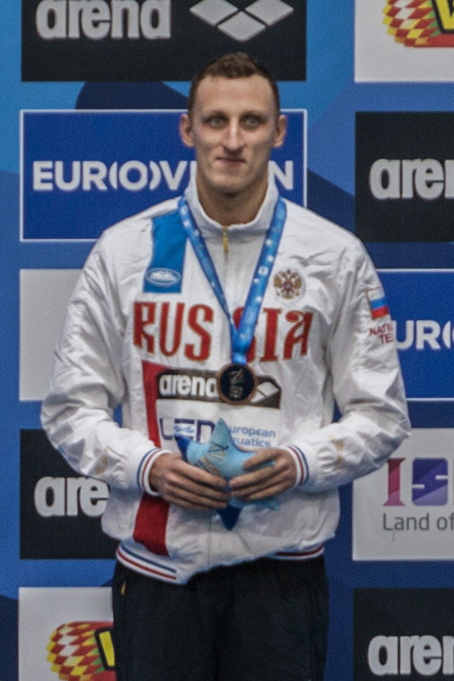 Swimmer Nikita Konovalov wearing the bronze medal he won at the 2015 European Short Course Swimming Championships in Netanya